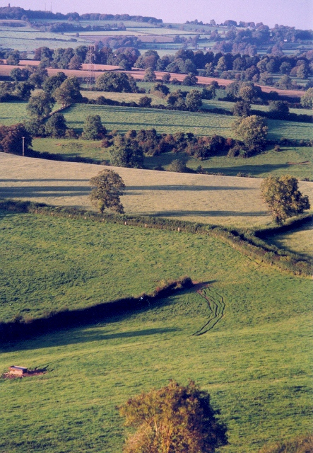 Somerset field pattern.